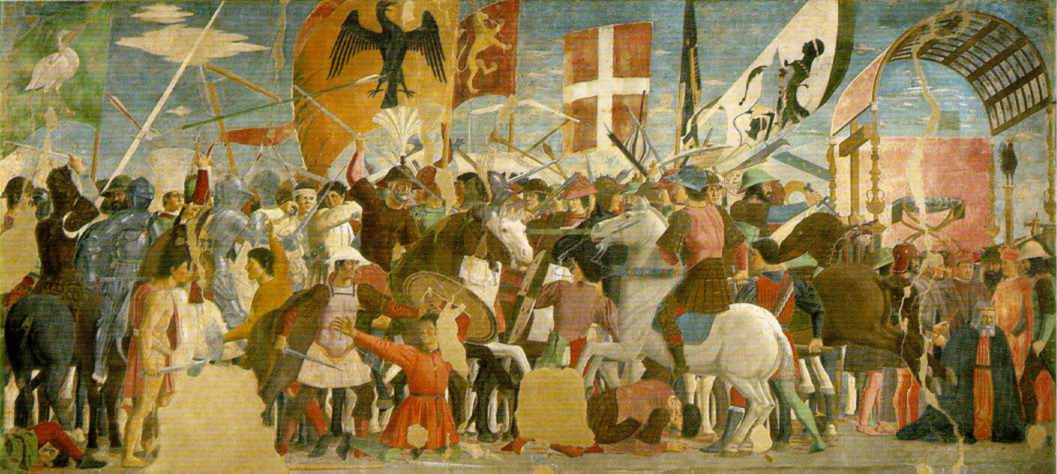 PIERO della FRANCESCA Battle between Heraclius and Chosroes Fresco, 329 x 747 cm San Francesco, Arezzo